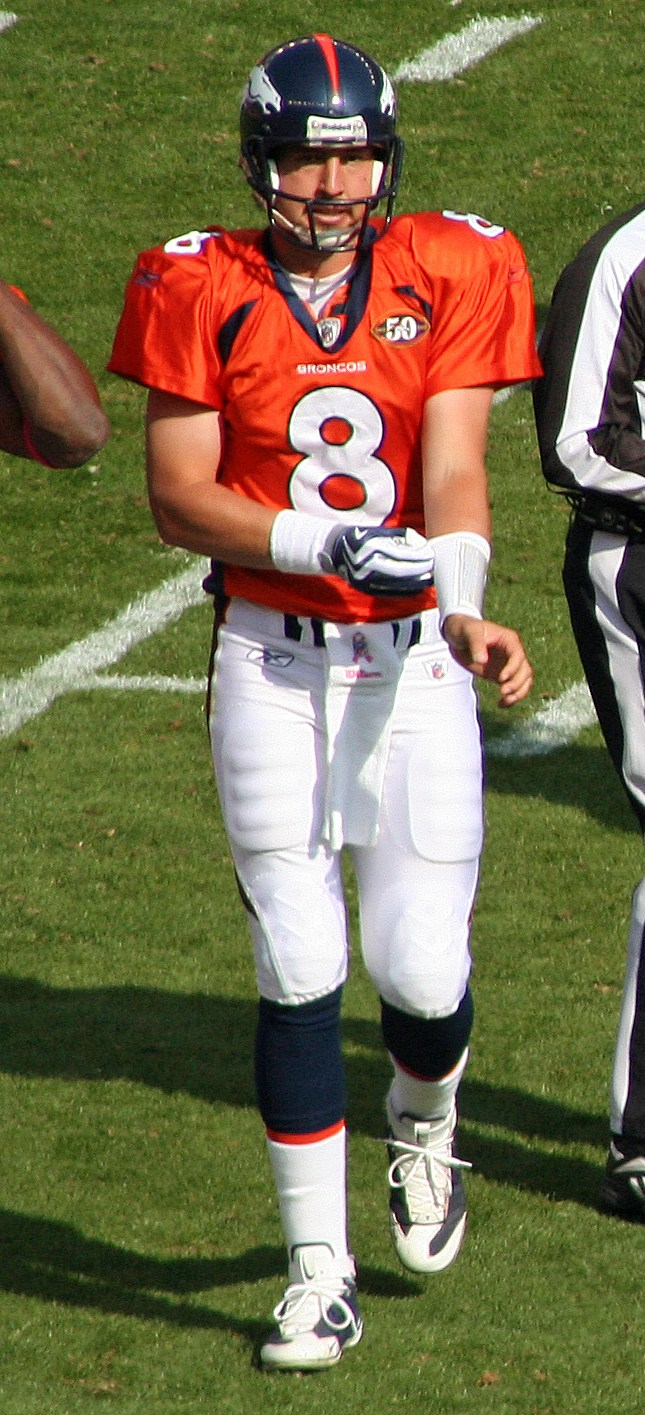 Kyle Orton, quarterback for the Denver Broncos American football team.